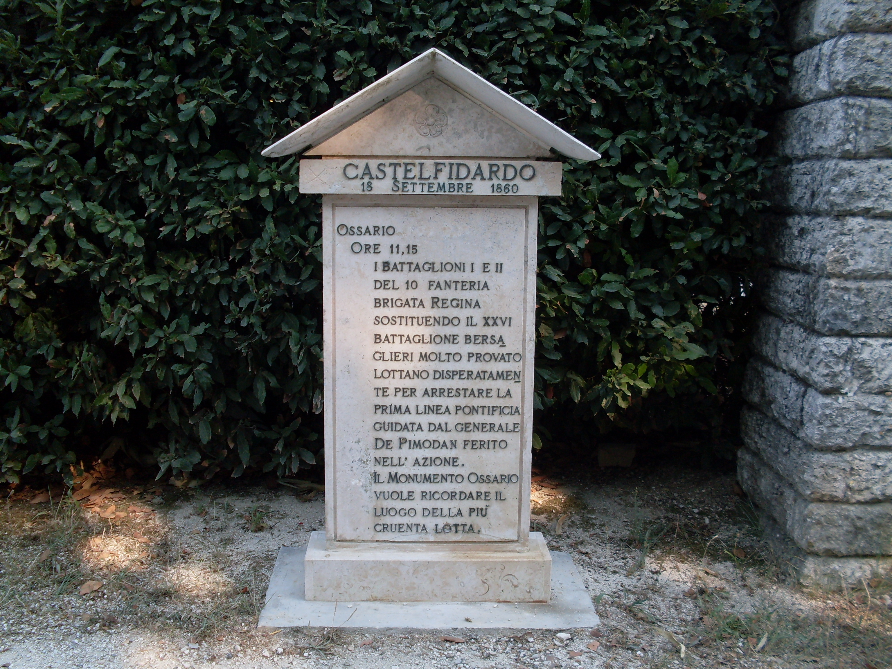 Inscription at the entry of the war merorial after the battle of Castelfidardo (AN) - Italy on 18 september 1861.